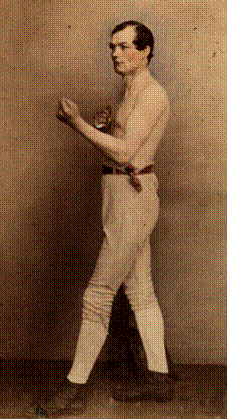 British boxer Nat Langham